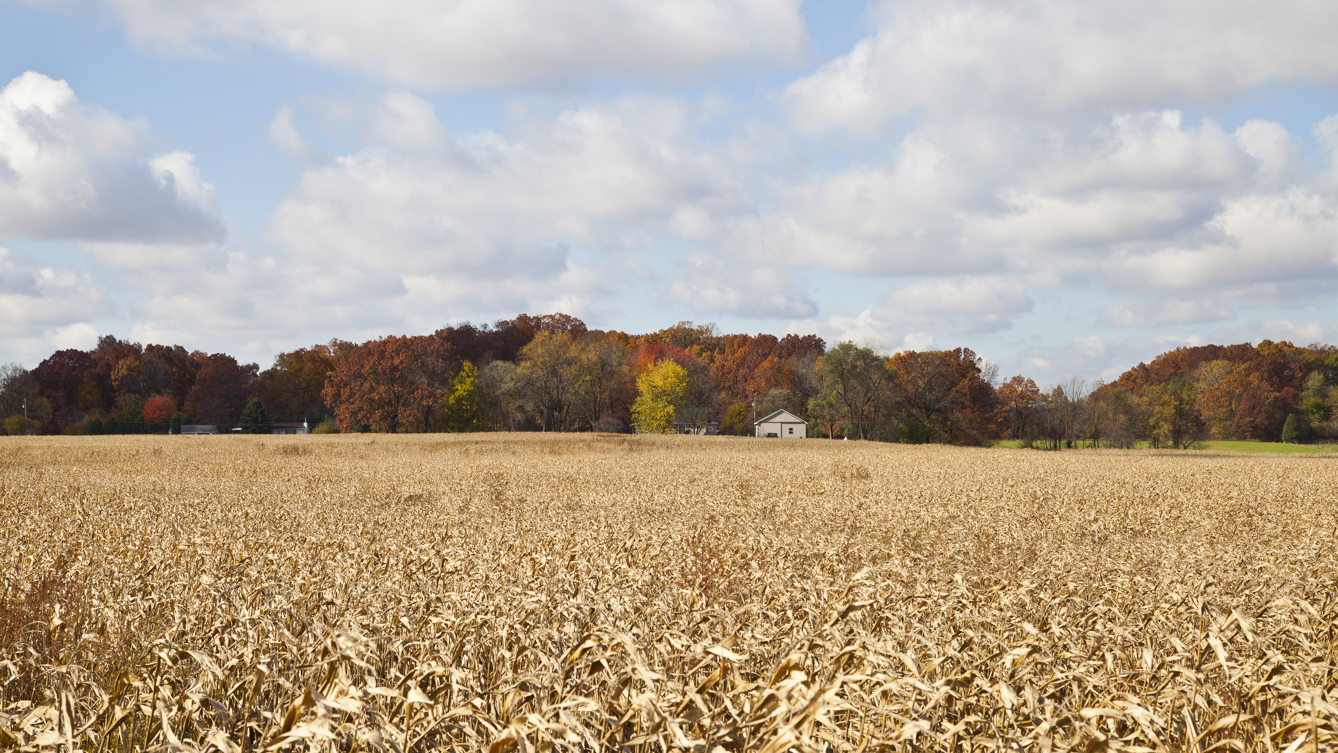 Cornfield, Walker, Indiana, USA